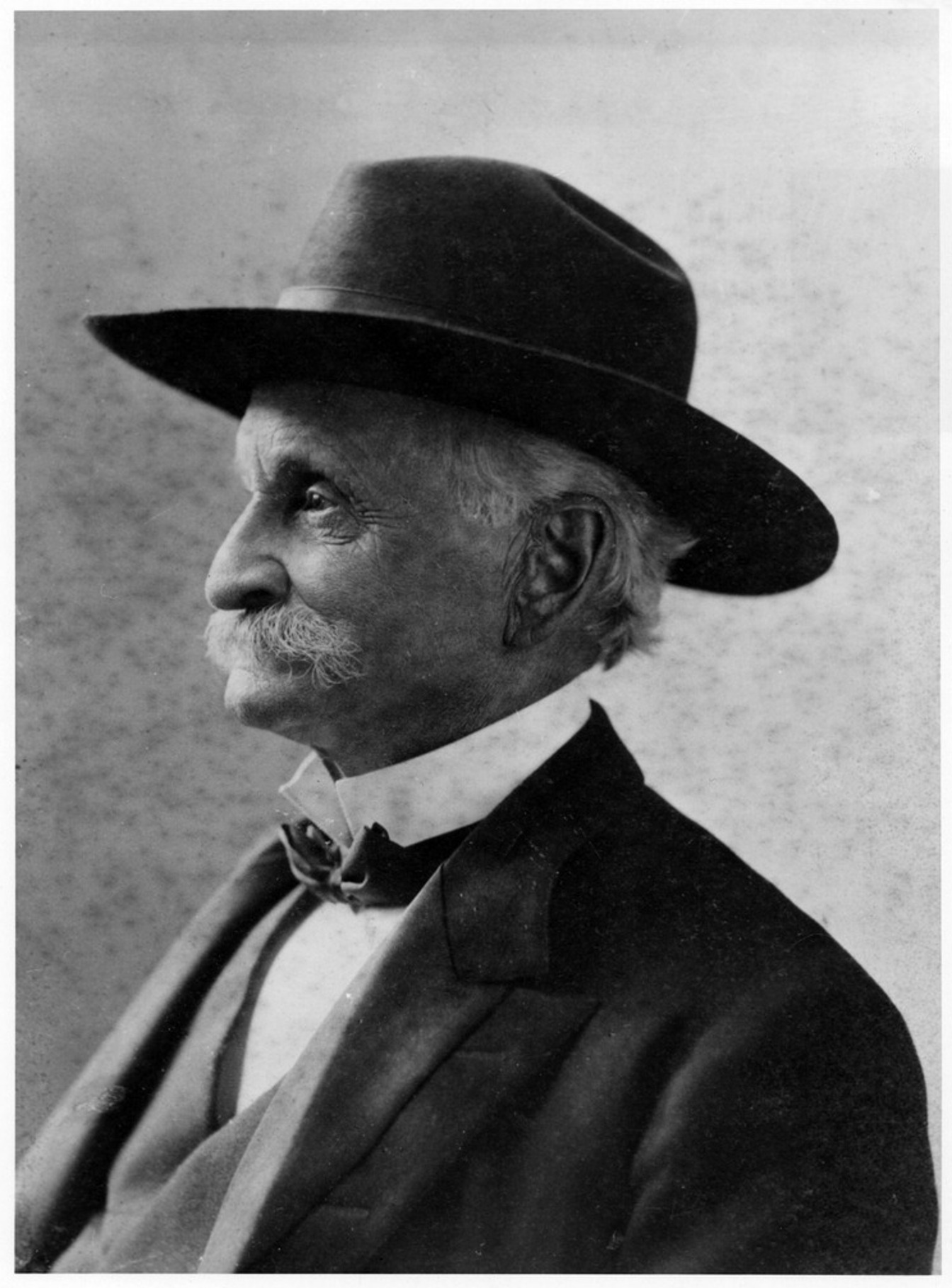 Elias Jackson "Lucky" Baldwin (April 3, 1828 – March 1, 1909) was "one of the greatest pioneers" of California business, an investor, and real estate speculator during the second half of the 19th century.